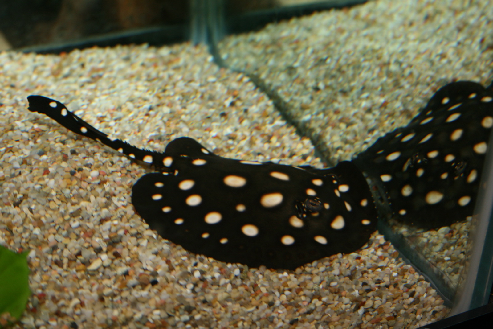 White-Blotched River Ray (Potamotrygon leopoldi)